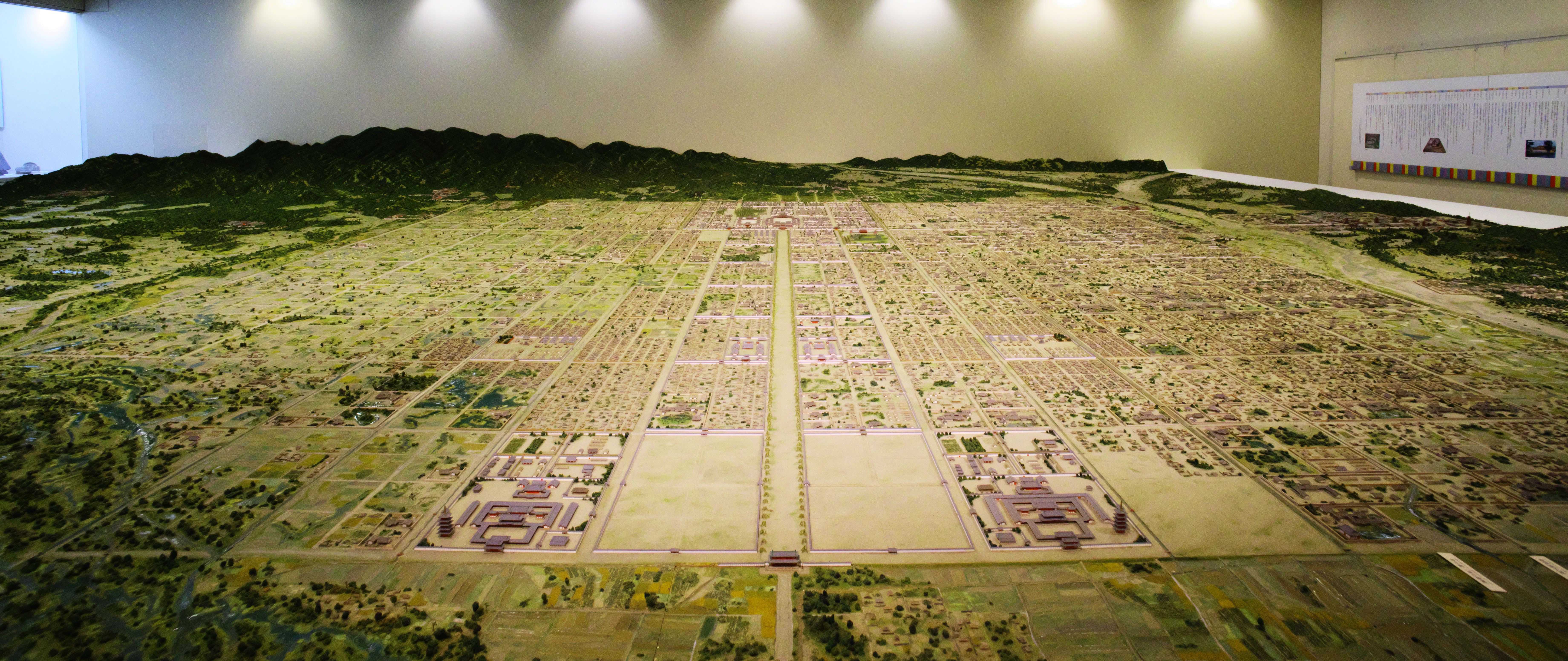 Over all model of Heian-kyō